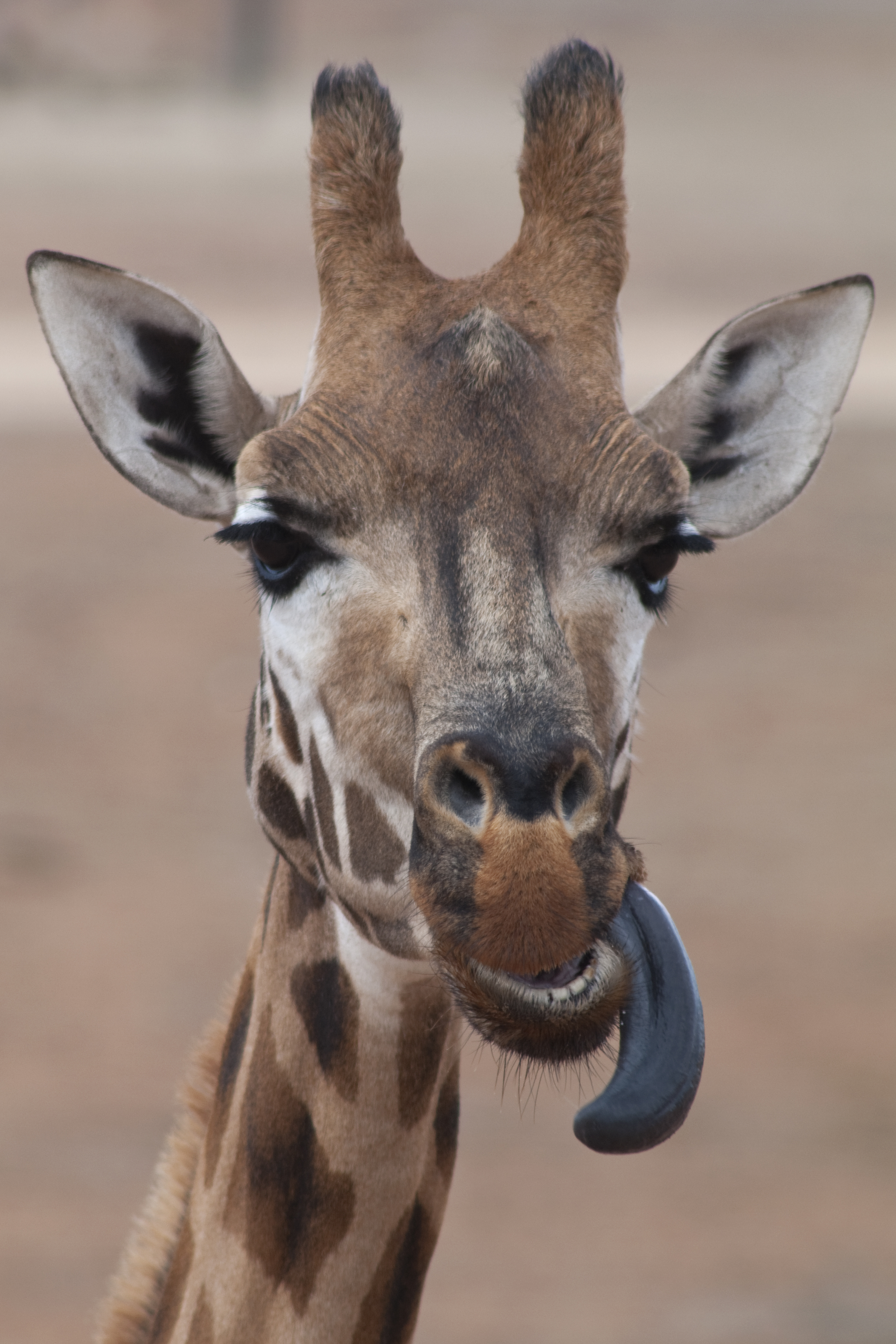 A Somali Giraffe (Giraffa camelopardalis reticulata) sticking out her tongue at the Monarto Zoological Park in South Australia.